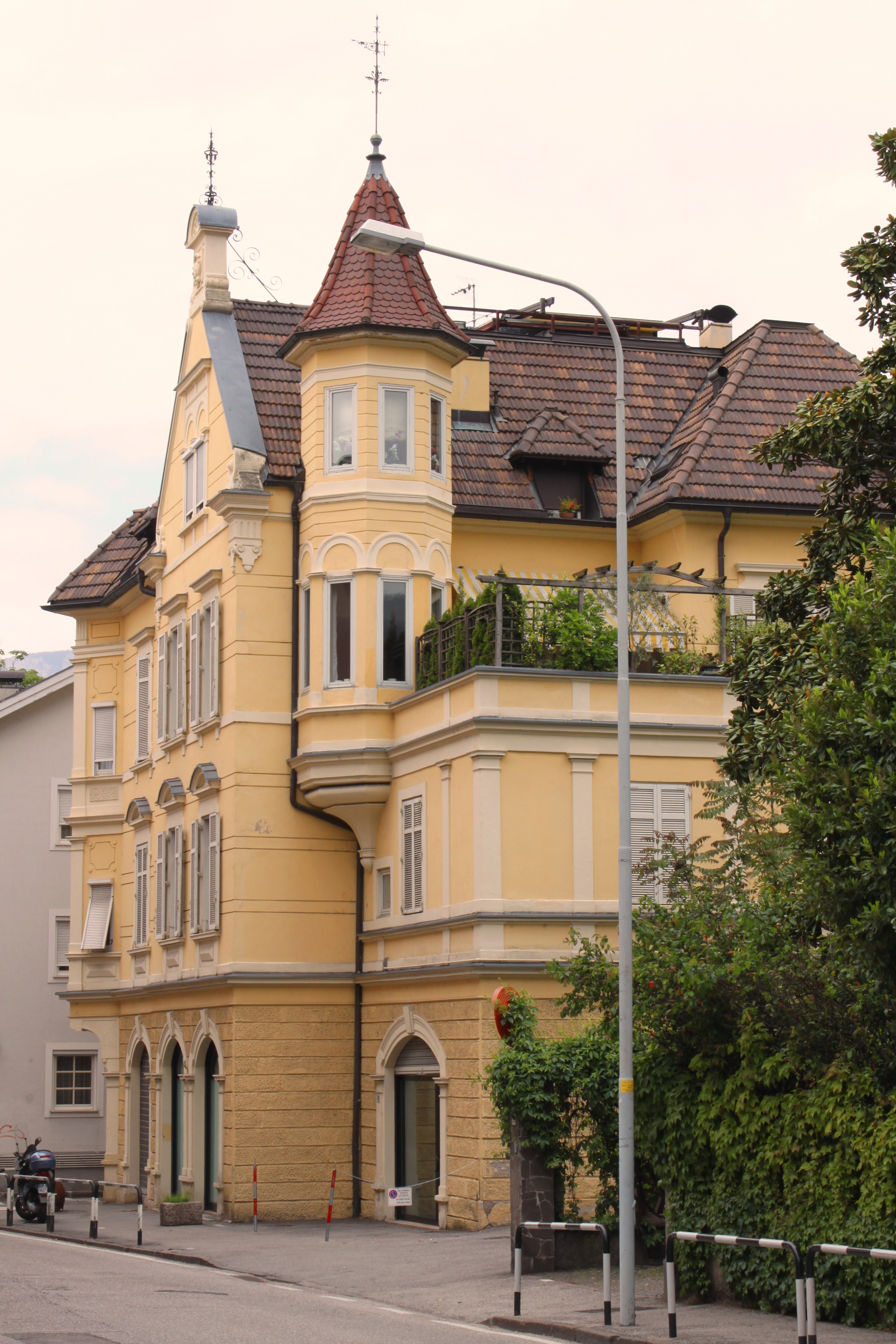 Villa Clara in Bozen Bolzano South Tyrol